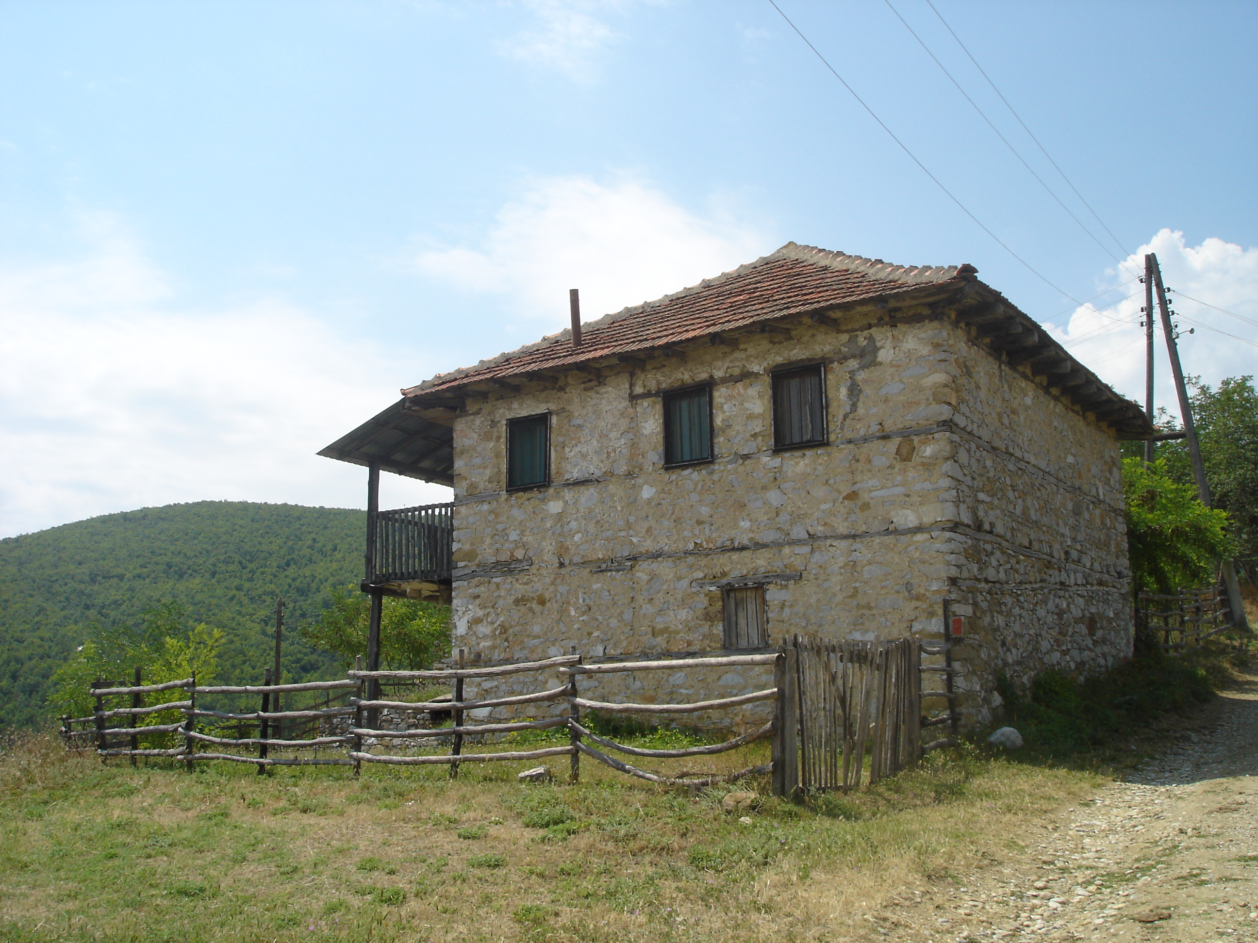 An old Macedonian house in Gradovci